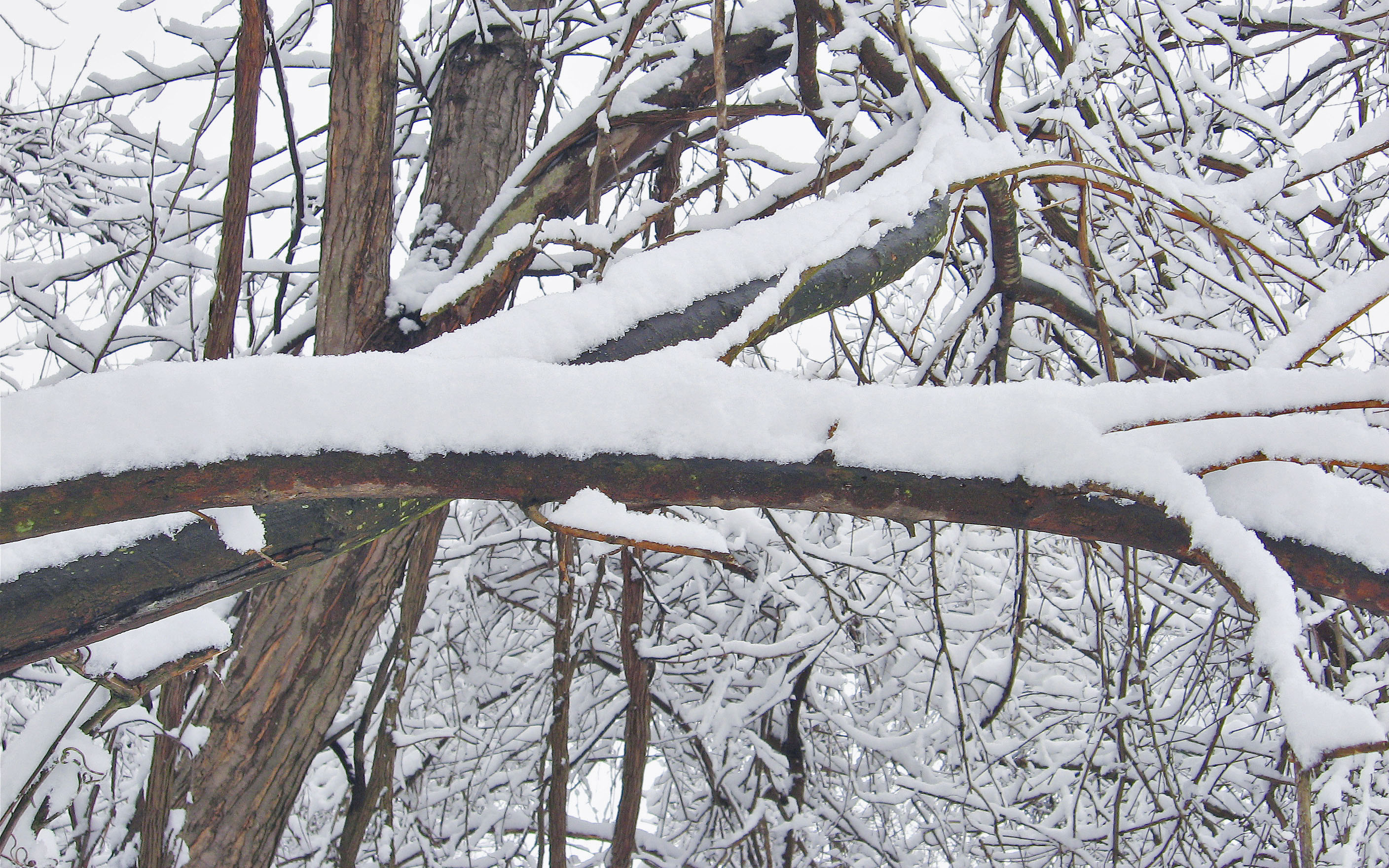 As title